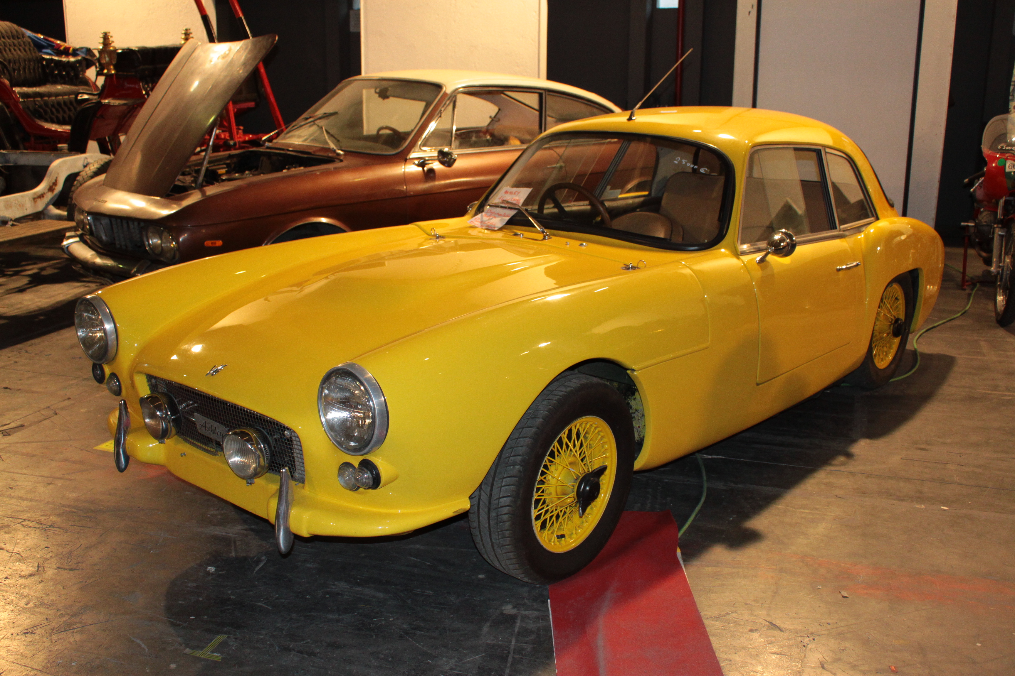 Ashley Sportiva at Auto Retro 2010 in Barcelona - History of this car at Ashley Sportiva en la feria Auto Retro 2010 de Barcelona